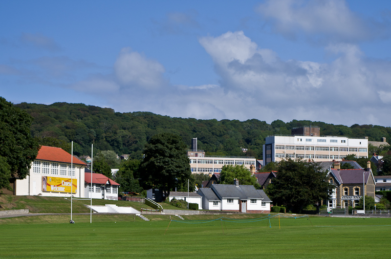 Vicarage Playing Fields